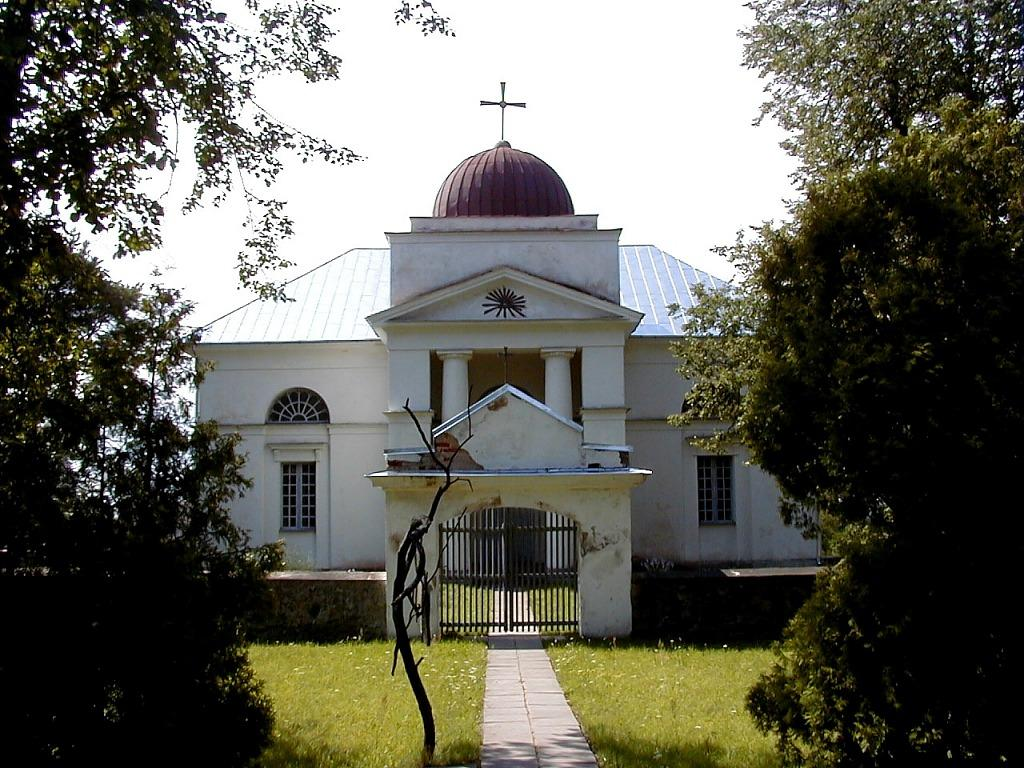 Gostiņi Lutheran church in Pļaviņas